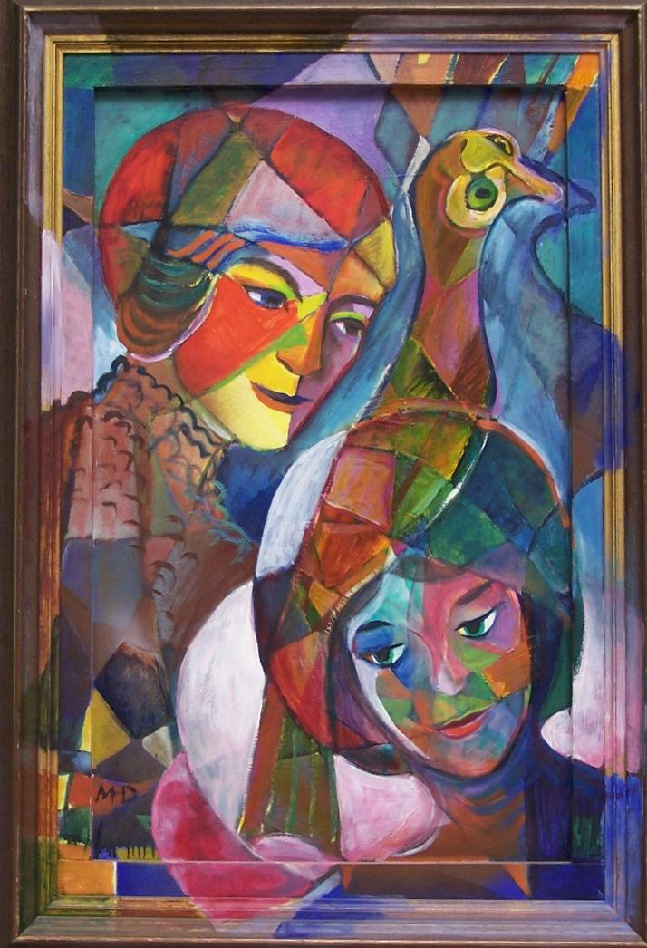 Parzival's dream, Oil Painting, 68x93 cm, 1977, WV-Nr.5244